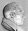 Giacomo Moraglia (7 June 1791 – 1 February 1861) was a prolific Italian architect